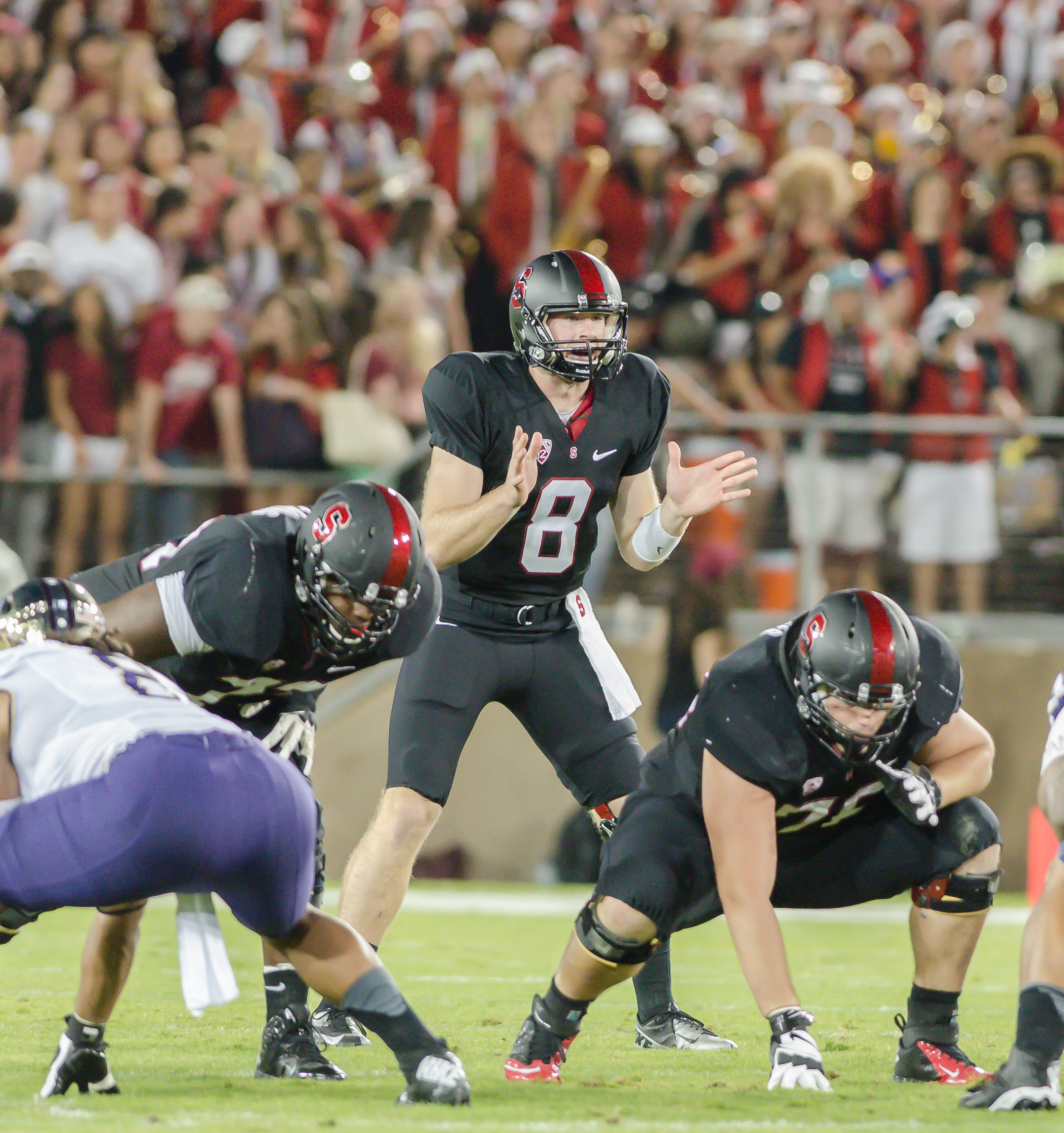 Keving Hogan leads his team to victory over Washington